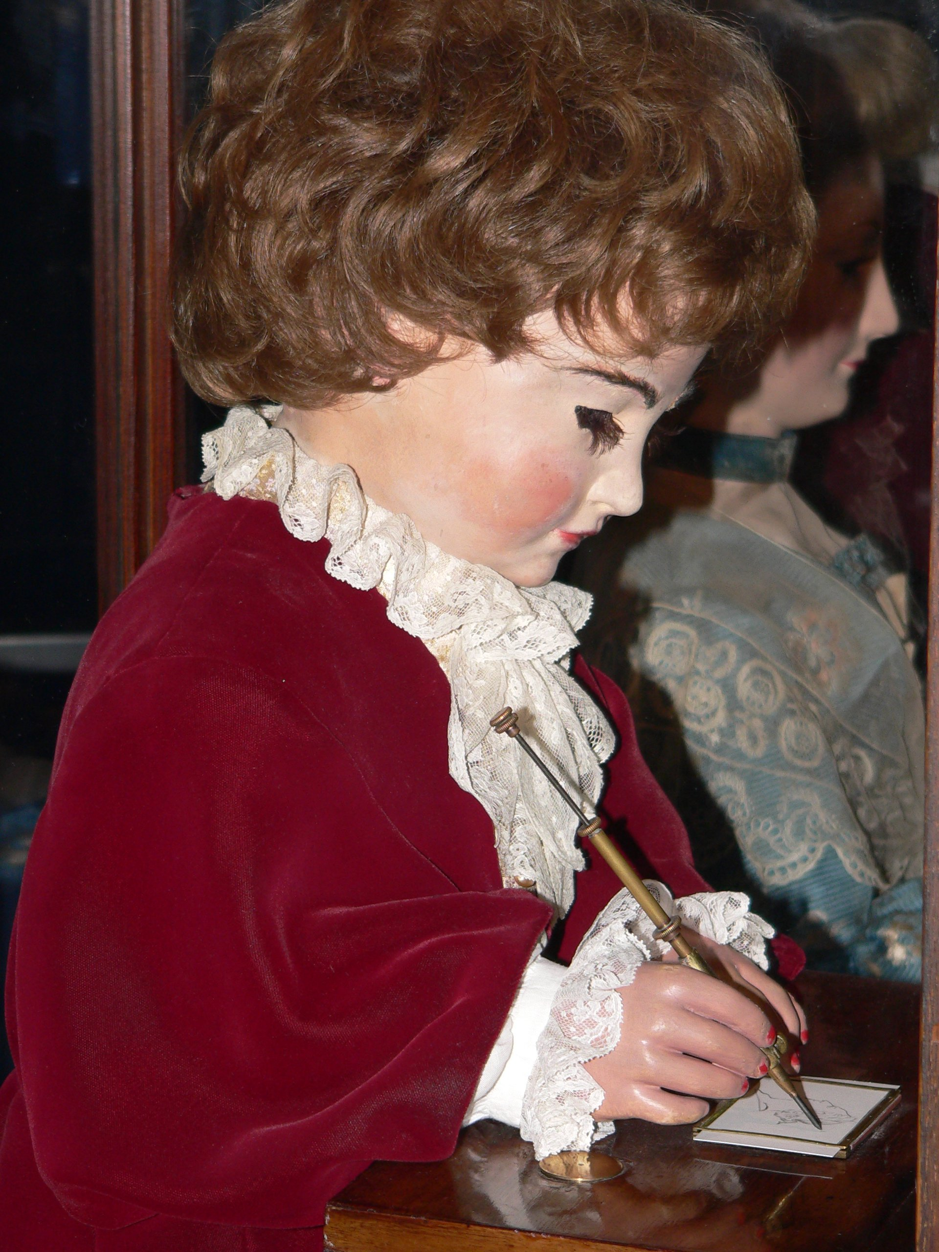 Jaquet-Droz automata, mus�e d'Art et d'Histoire de Neuch�tel